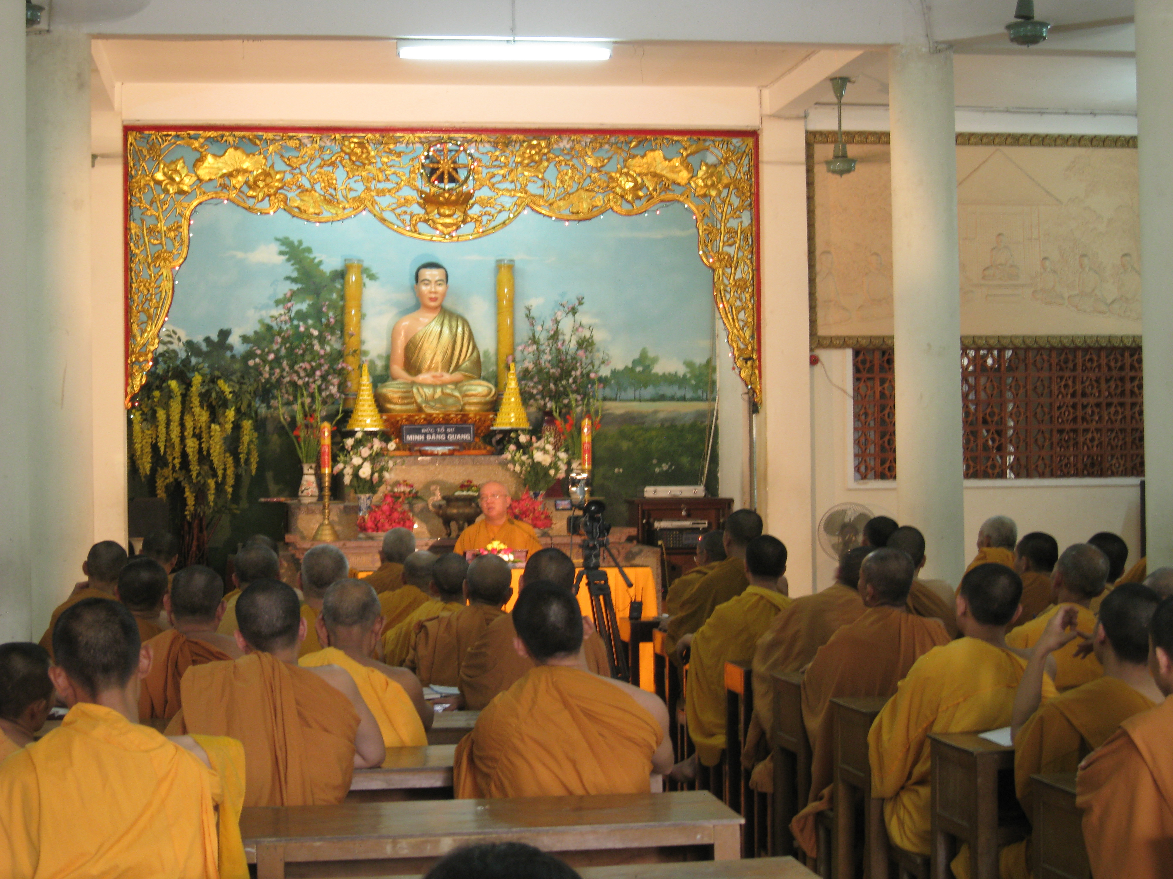 A teaching session in Tinh Xa Trung Tam.